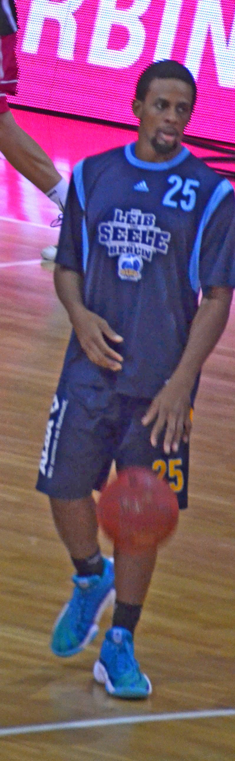 Picture of a professional Player taken during a game